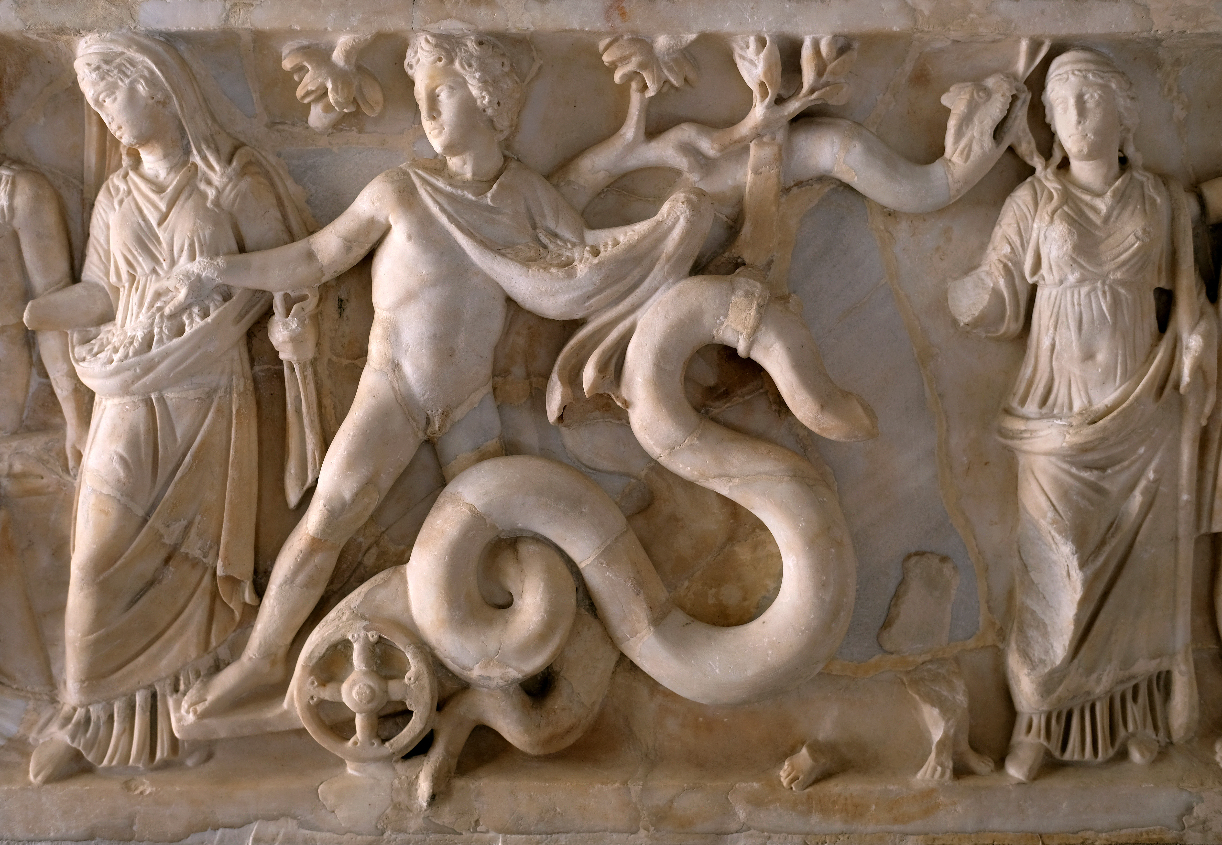 Triptolemus legend, panel of a Roman sarcophagus. , detail.